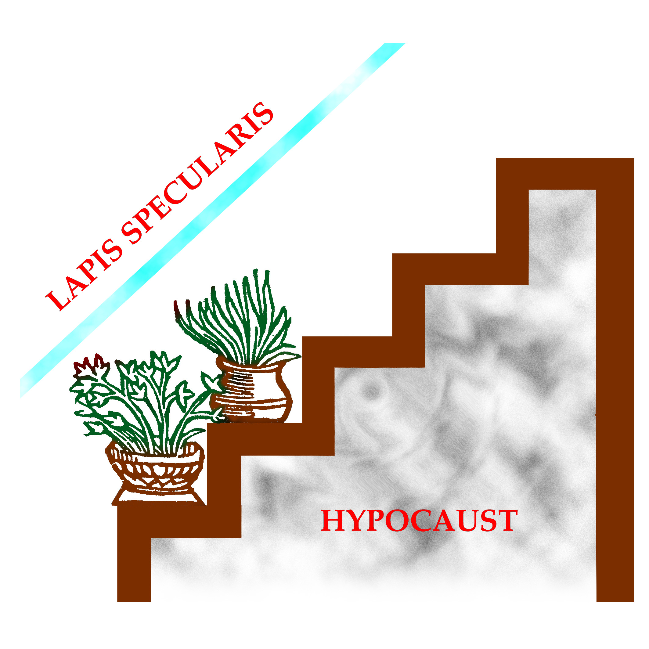 Ancient Roman greenhouse - Specularia